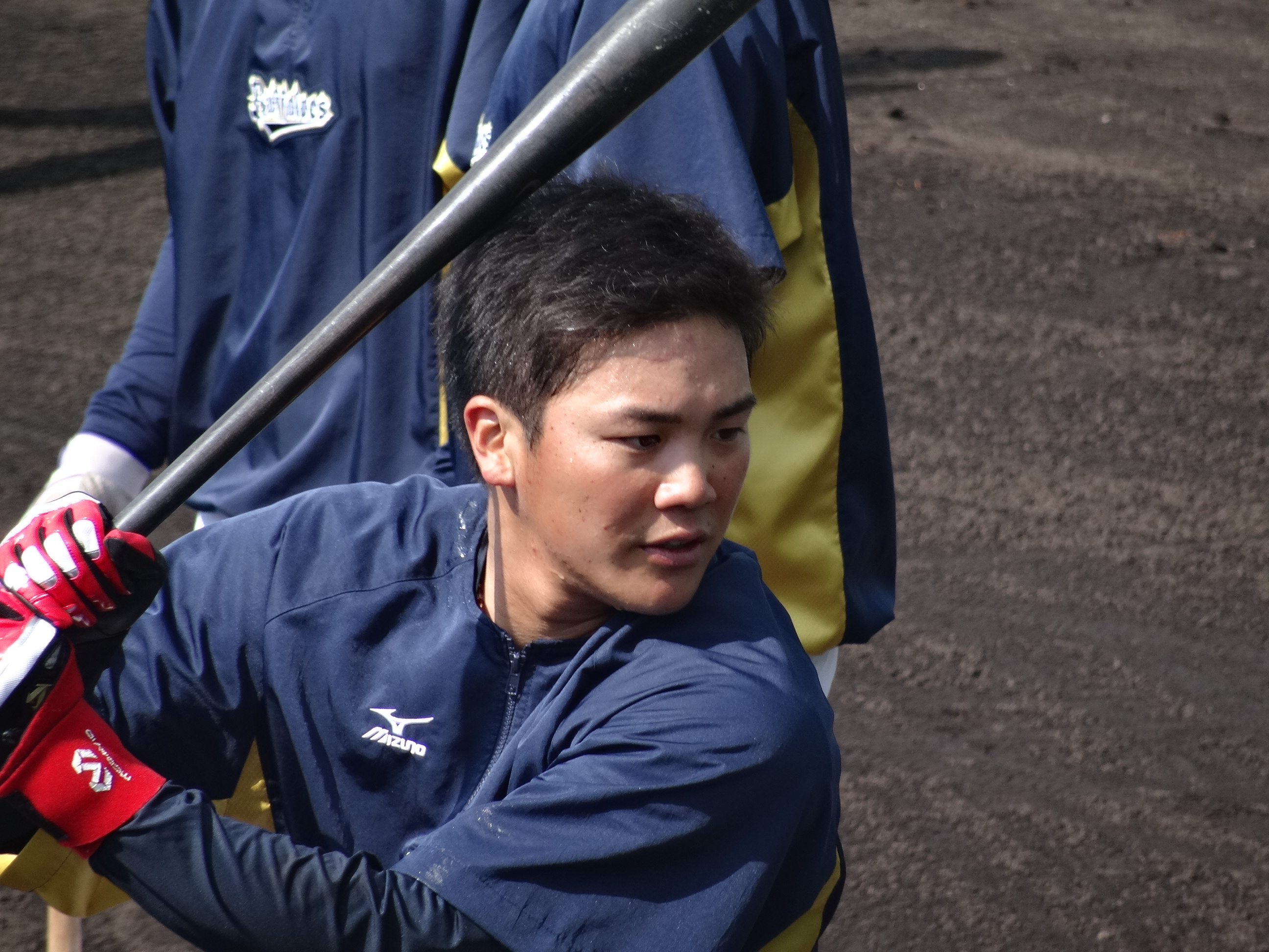 Torai Fushimi, catcher of the Orix Buffaloes, at Hanshin Naruohama Baseball Ground